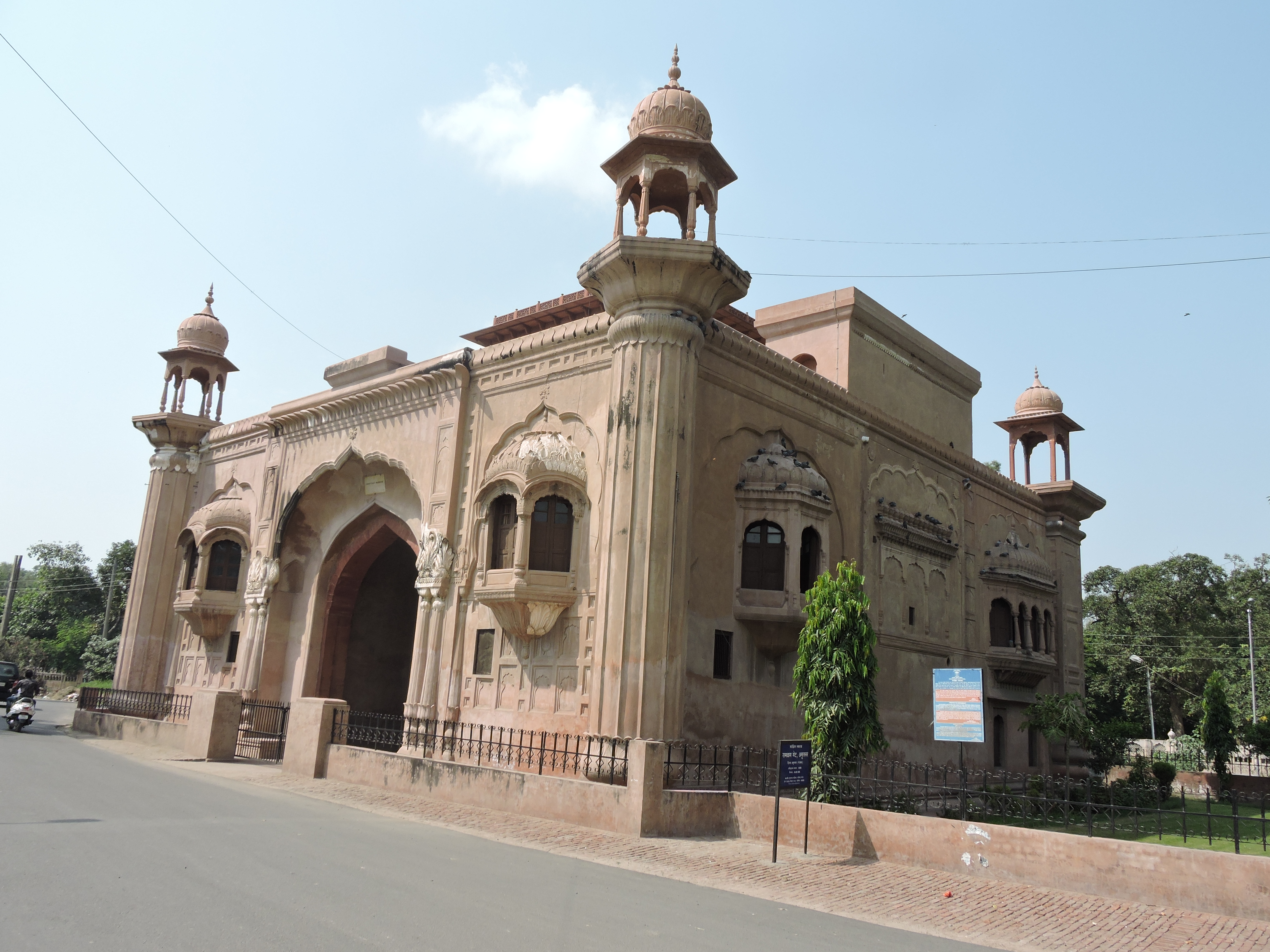 Entrance gate of Rambagh palace, Amritsar, Punjab, India